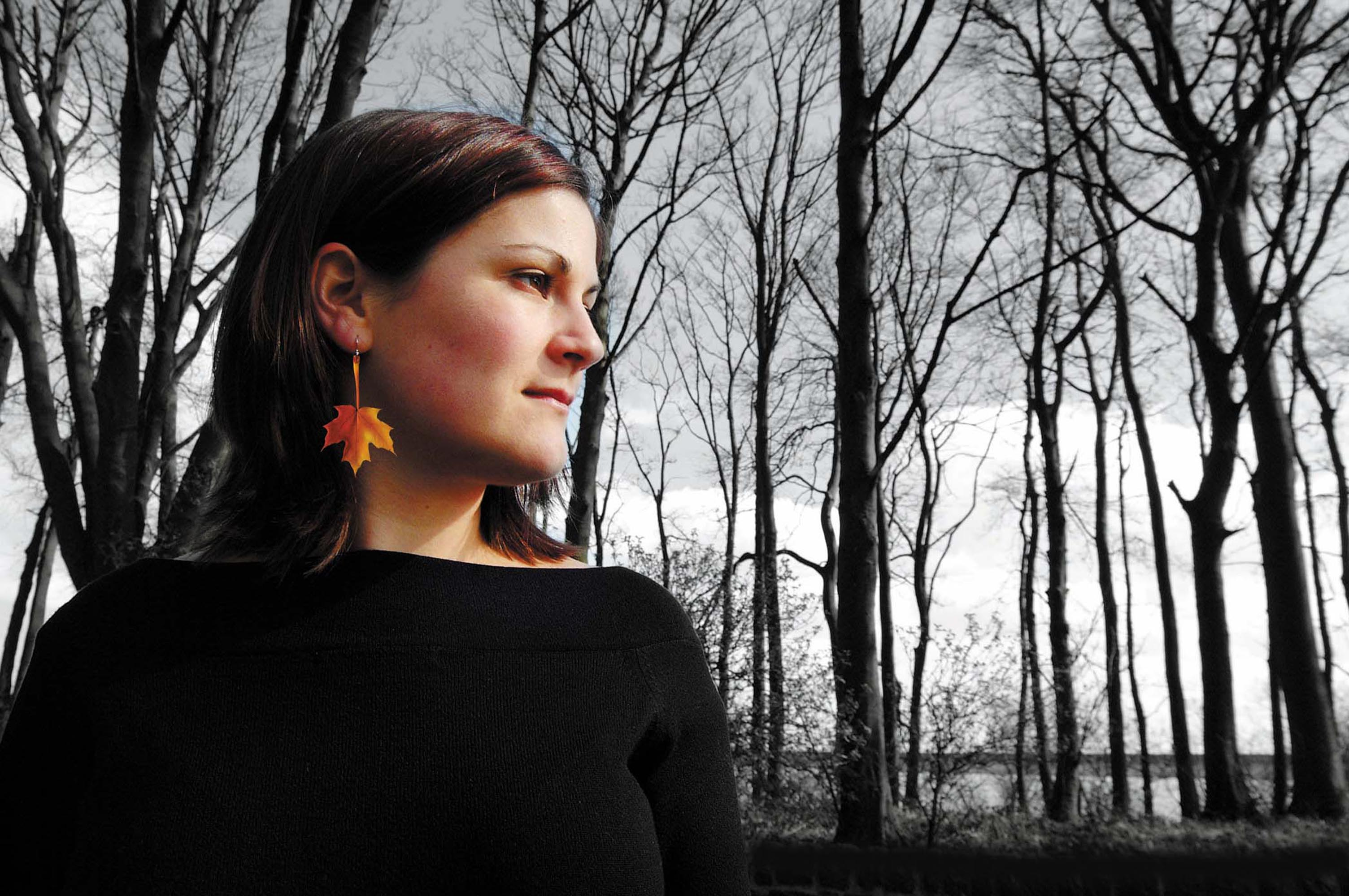 This shot of Bill Jones was taken for her last CD "Two Year Winter". It was taken in April luckily while the trees were still without leaves. A bit of PhotoShopping desaturated the background and added in the leaf earring.